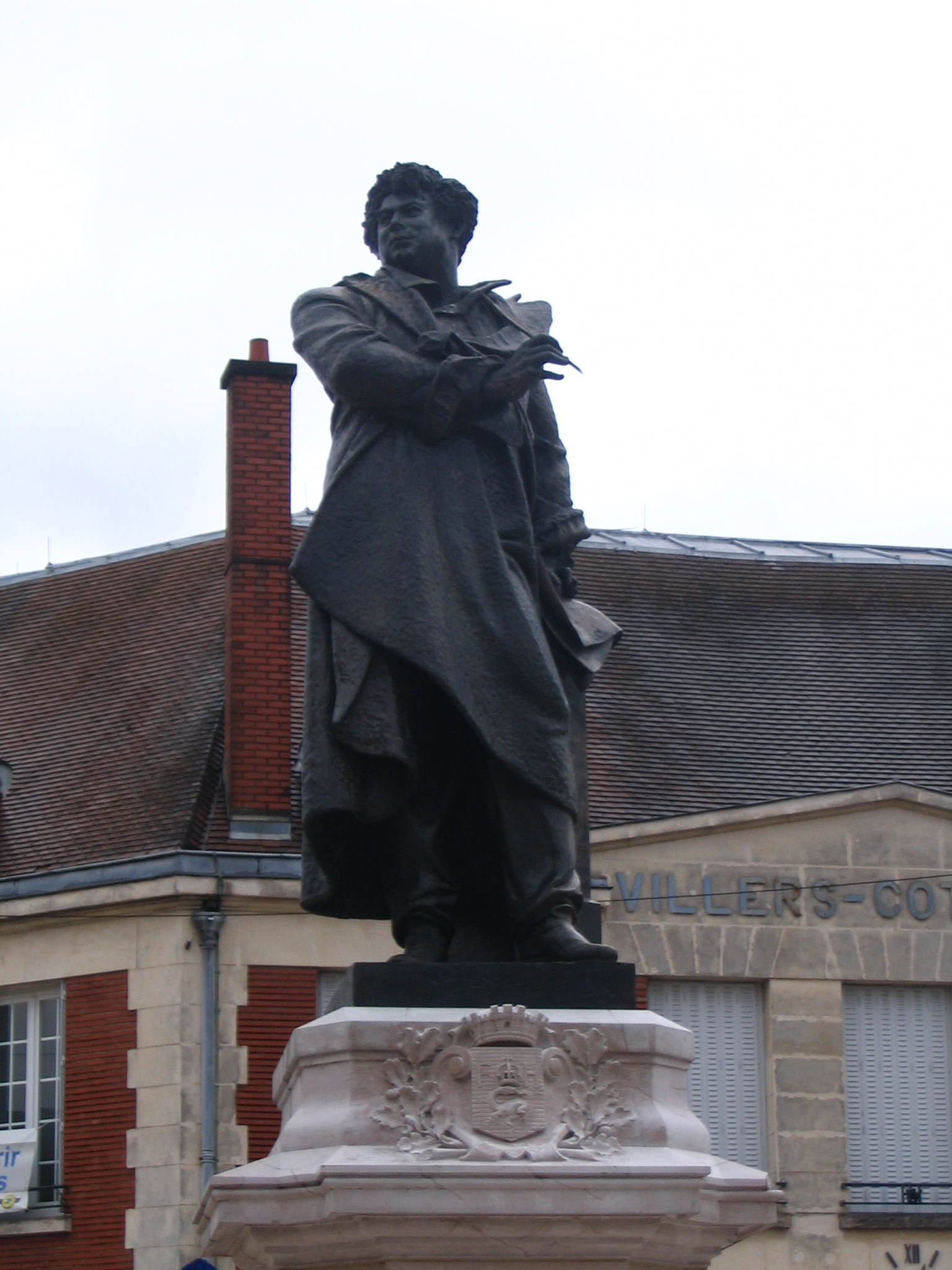 Albert-Ernest Carrier-Belleuse, The Monument to Alexandre Dumas (1885, detail), in Villers-Cotterêts, Aisne, France.